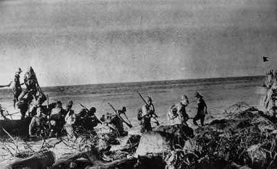 Japanese troops land on Corregidor